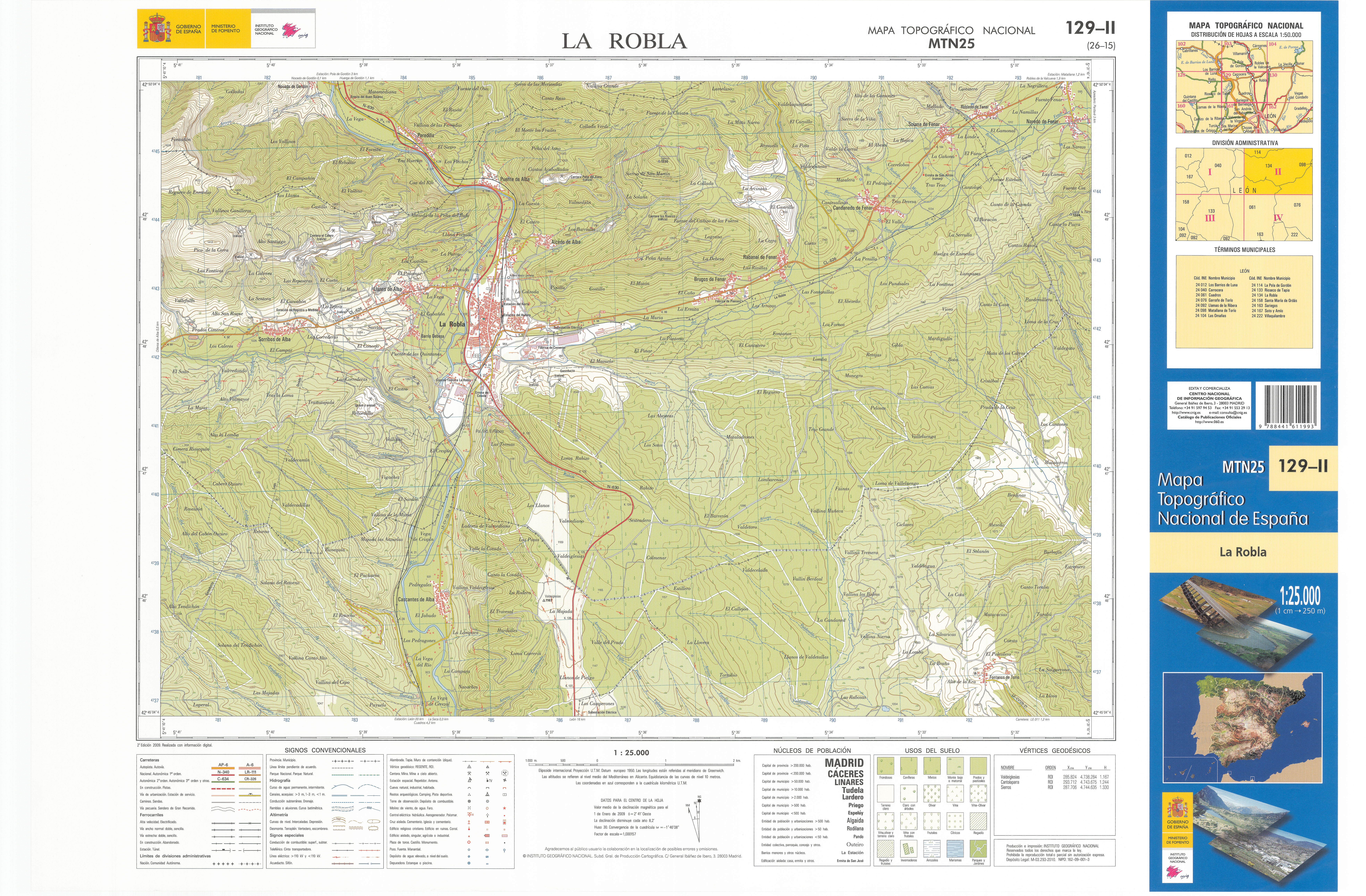 Fragment 0129c2 of the National Topographic Map of Spain in 2009 at a scale of 1:25000 printed and scanned with a resolution of 250 ppi. It shows La Robla.